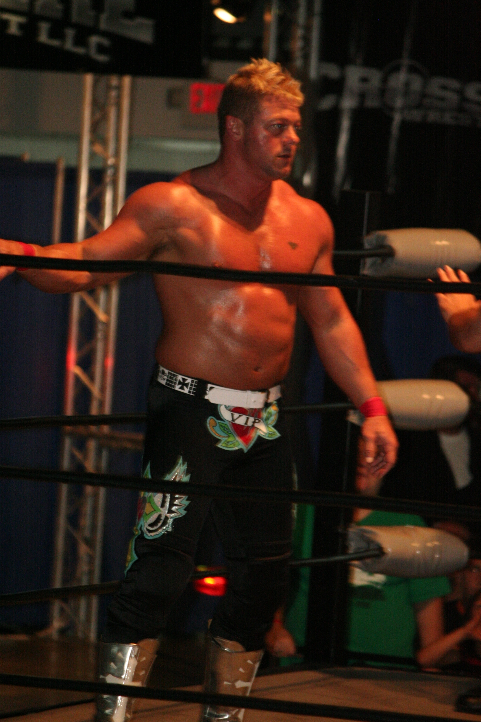 Cassidy Riley in the ring in May 2011 in Nashville, TN, at a Crossfire Professional Wrestling event.